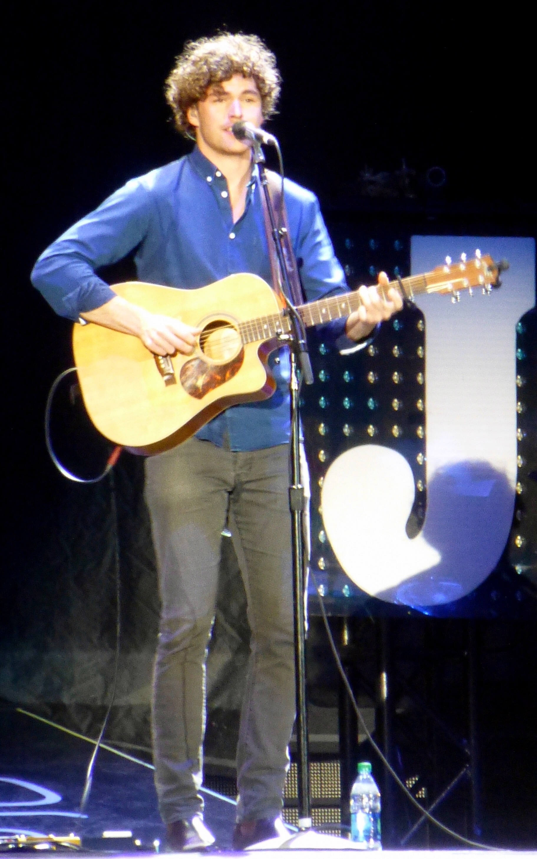 Vance Joy opening for Taylor Swift 1989 Tour at Ford Field in Detroit, 5/30/15